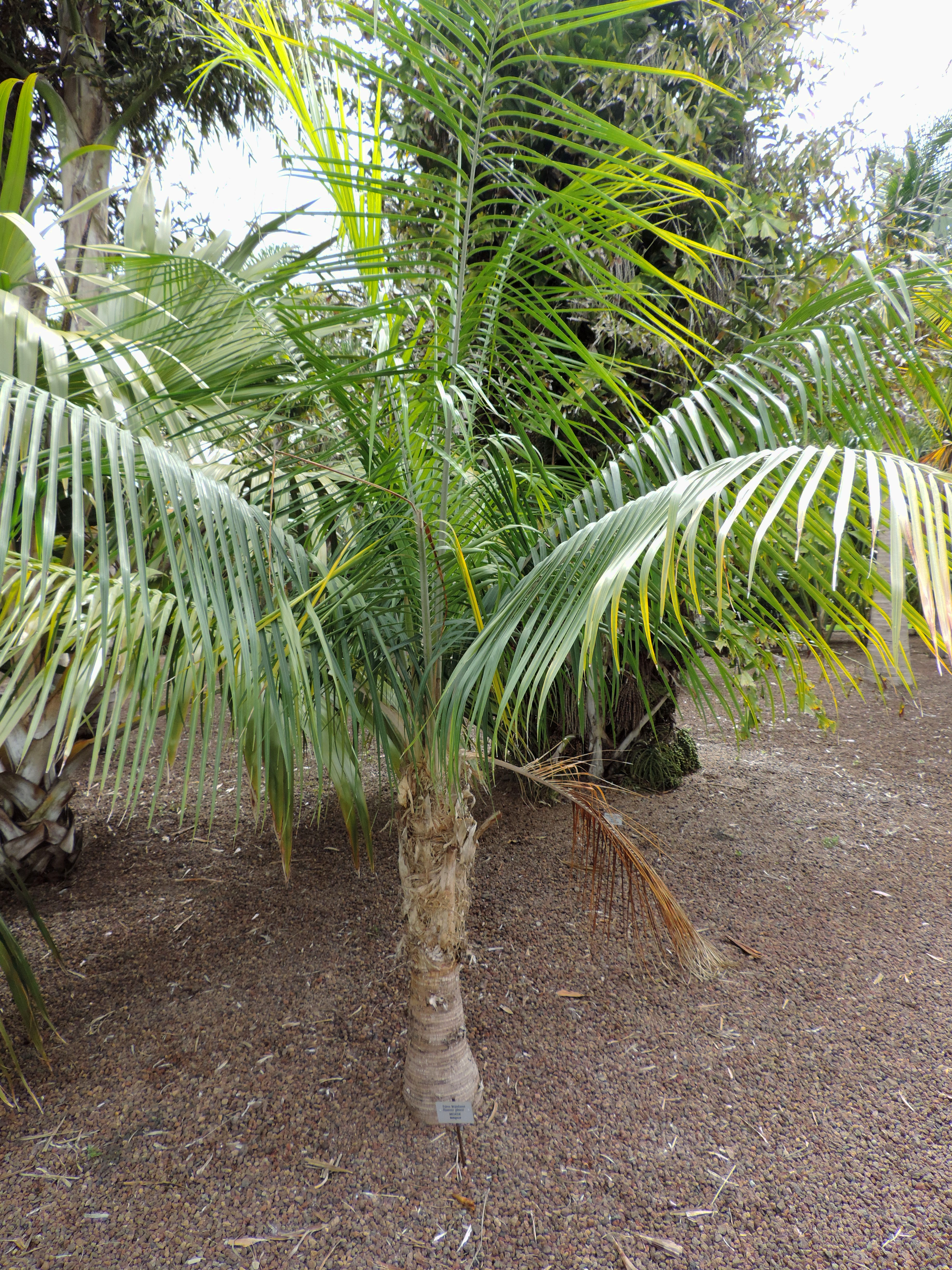 Ravenea glauca in Jardín Botánico Canario Viera y Clavijo, Gran Canaria